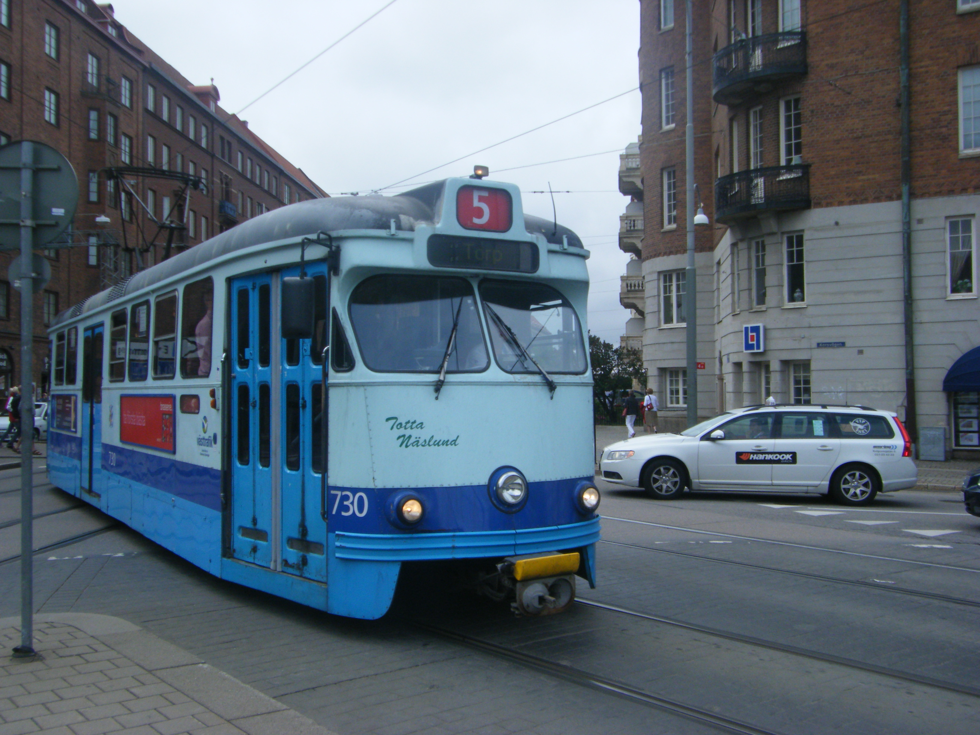 Tram in Gothenburg